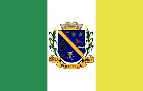 Flags of the city of Bertópolis, Minas Gerais, Brazil.